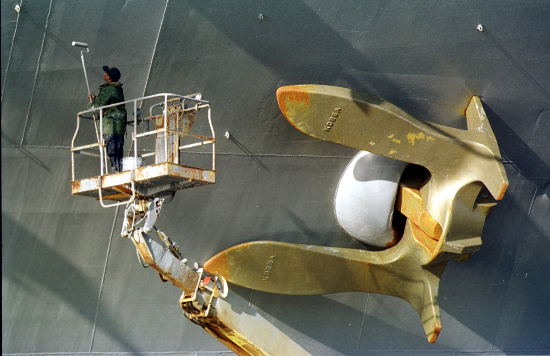 010226-N-6119T-001 Aboard USS Theodore Roosevelt (CVN 71) Naval Station Norfolk, VA, Feb. 26, 2001 -- A Sailor conducts painting and preservation on the ship’s bow during an upkeep period in the carrier’s homeport. U.S. Navy photo by Chief Photographer's Mate Dennis Taylor. (RELEASED)